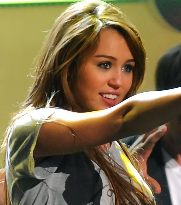 Miley Cyrus performs at the “Kids Inaugural: We Are the Future” concert at the Verizon Center in downtown Washington, D.C., Jan. 19, 2009.